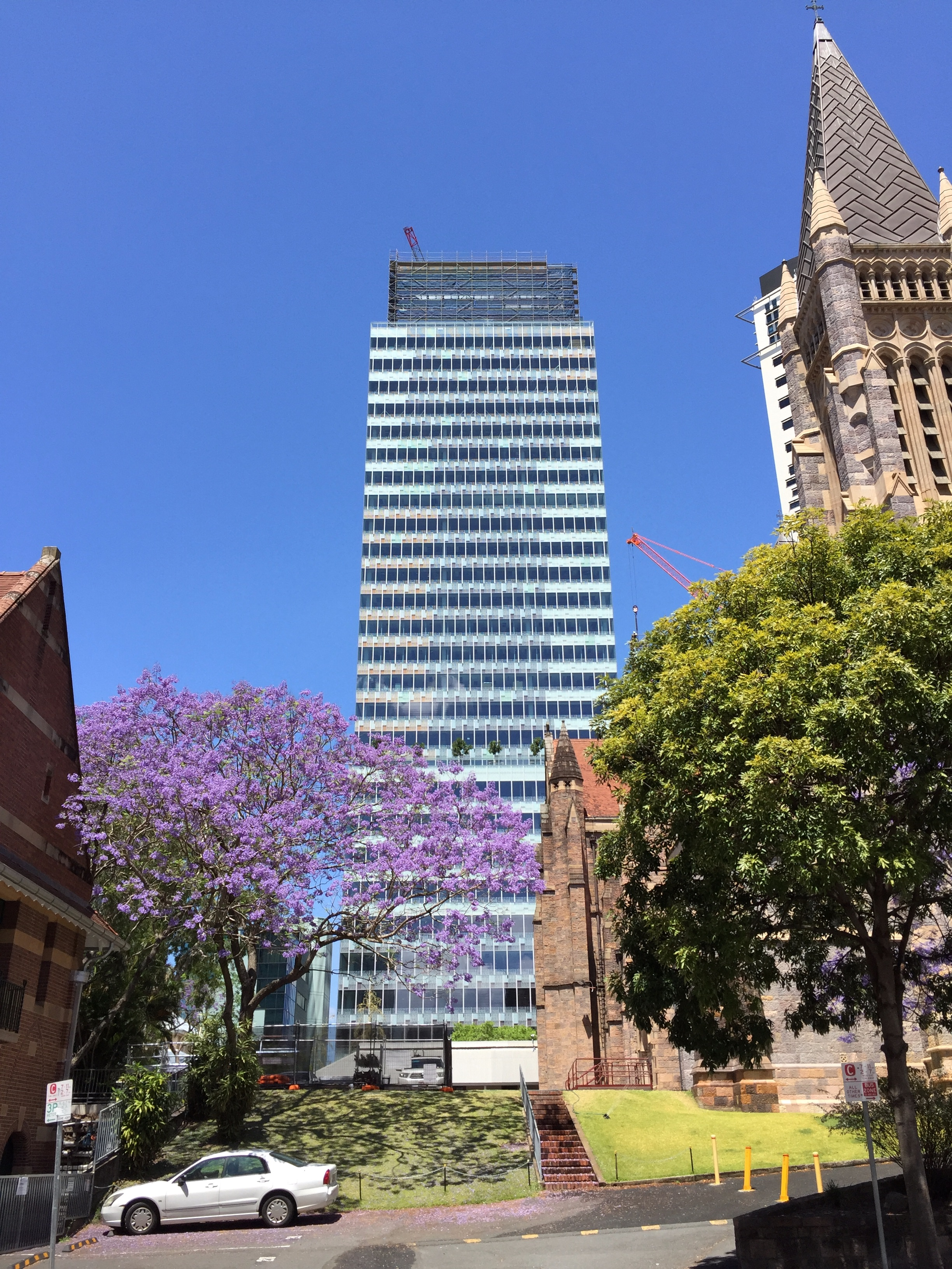 480 Queen Street, Brisbane on 17 Oct 2015